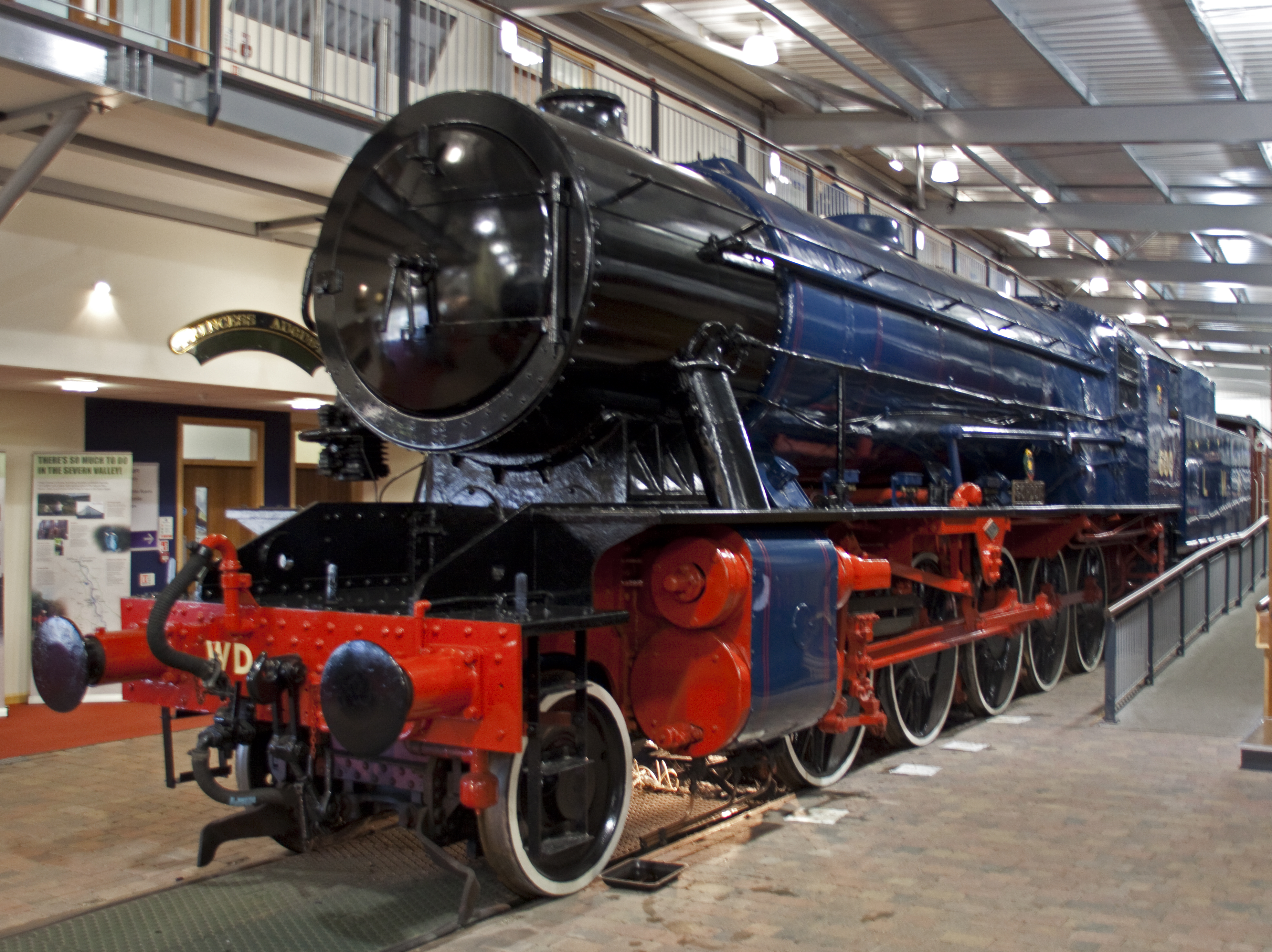 Longmoor Military Railway 2-10-0 at Highley Engine shed. It was highly unlikely that this engine would ever steam again as not only did it need a full boiler overhaul, but the firebox was cracked. However, they have recently acquired another firebox so one day 'Gordon' may steam again